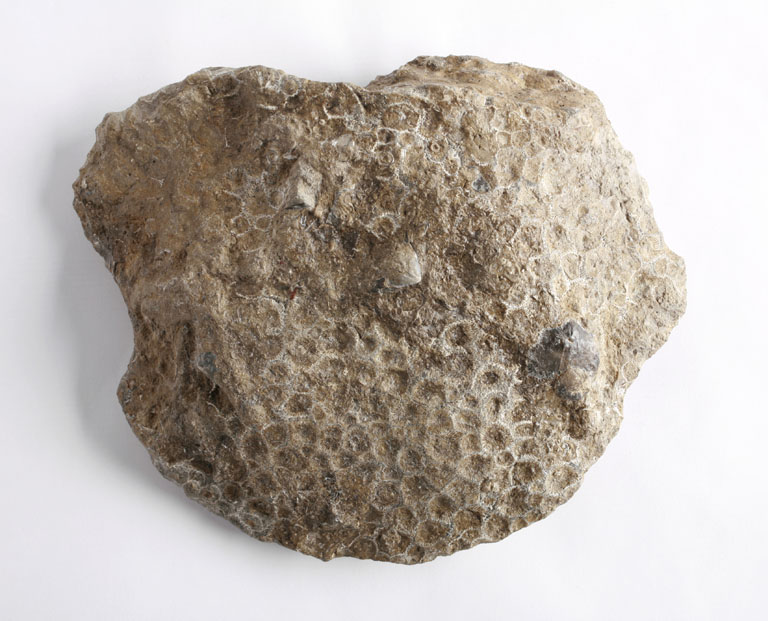 A Petoskey stone from Emmet County, Michigan. Now in the permanent collection of The Children’s Museum of Indianapolis.